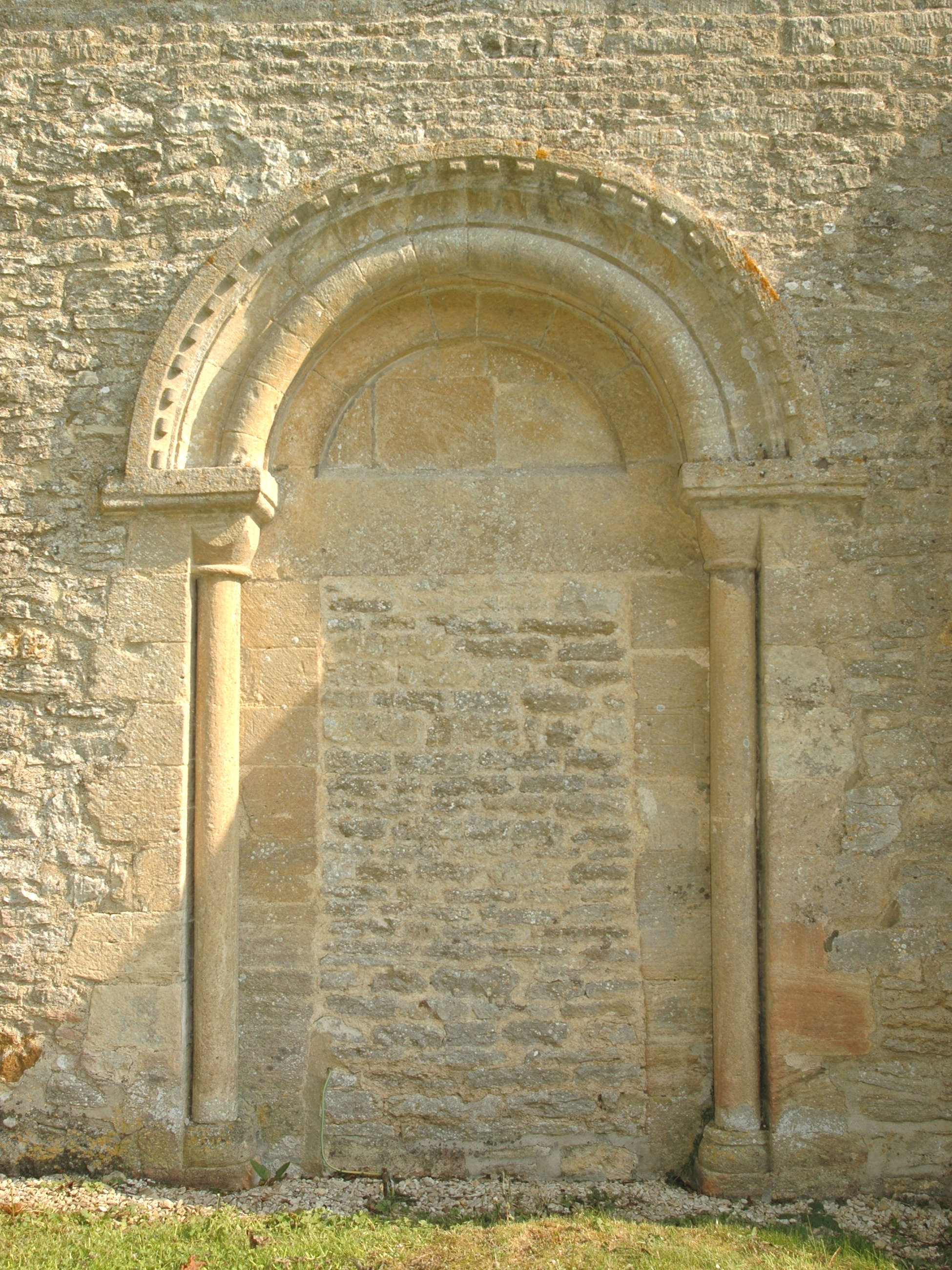 Blocked south doorway of St Peter's parish church, Wilcote, Oxfordshire, viewed from the outside.